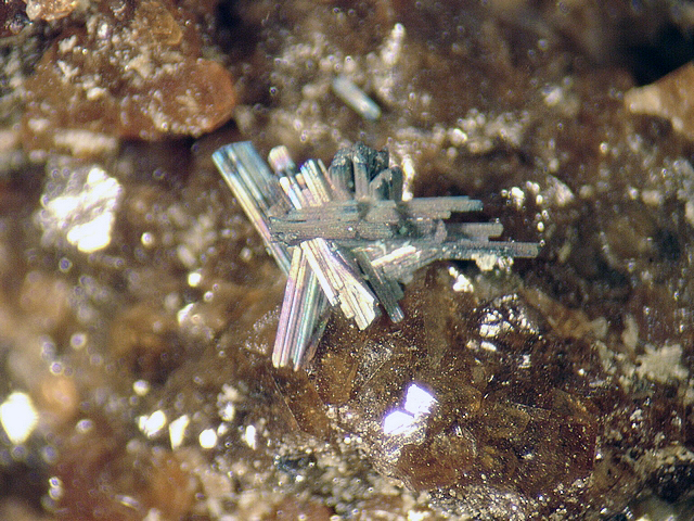 Aikinite from Kara mine, Tasmania